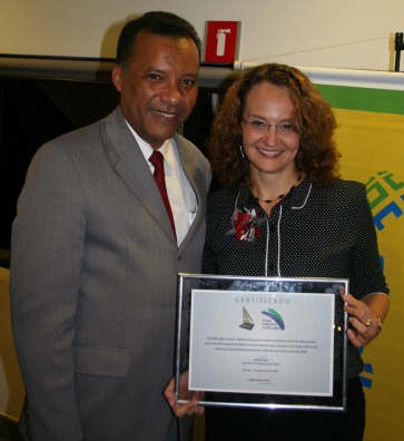 Prêmio Congresso em Foco